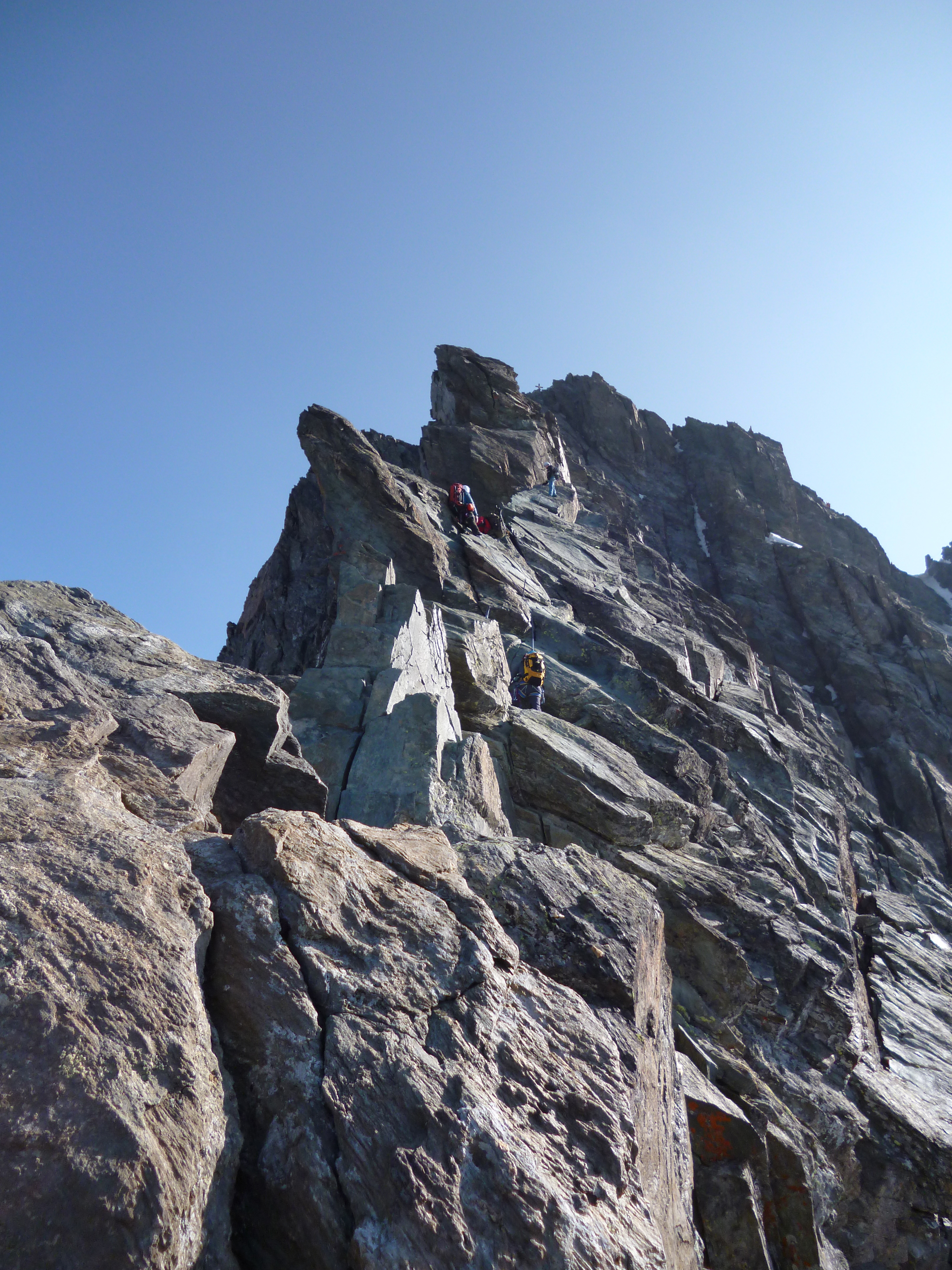 Stüdlgrat, im Hintergrund der Gipfel